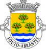 Coat of arms of Souto